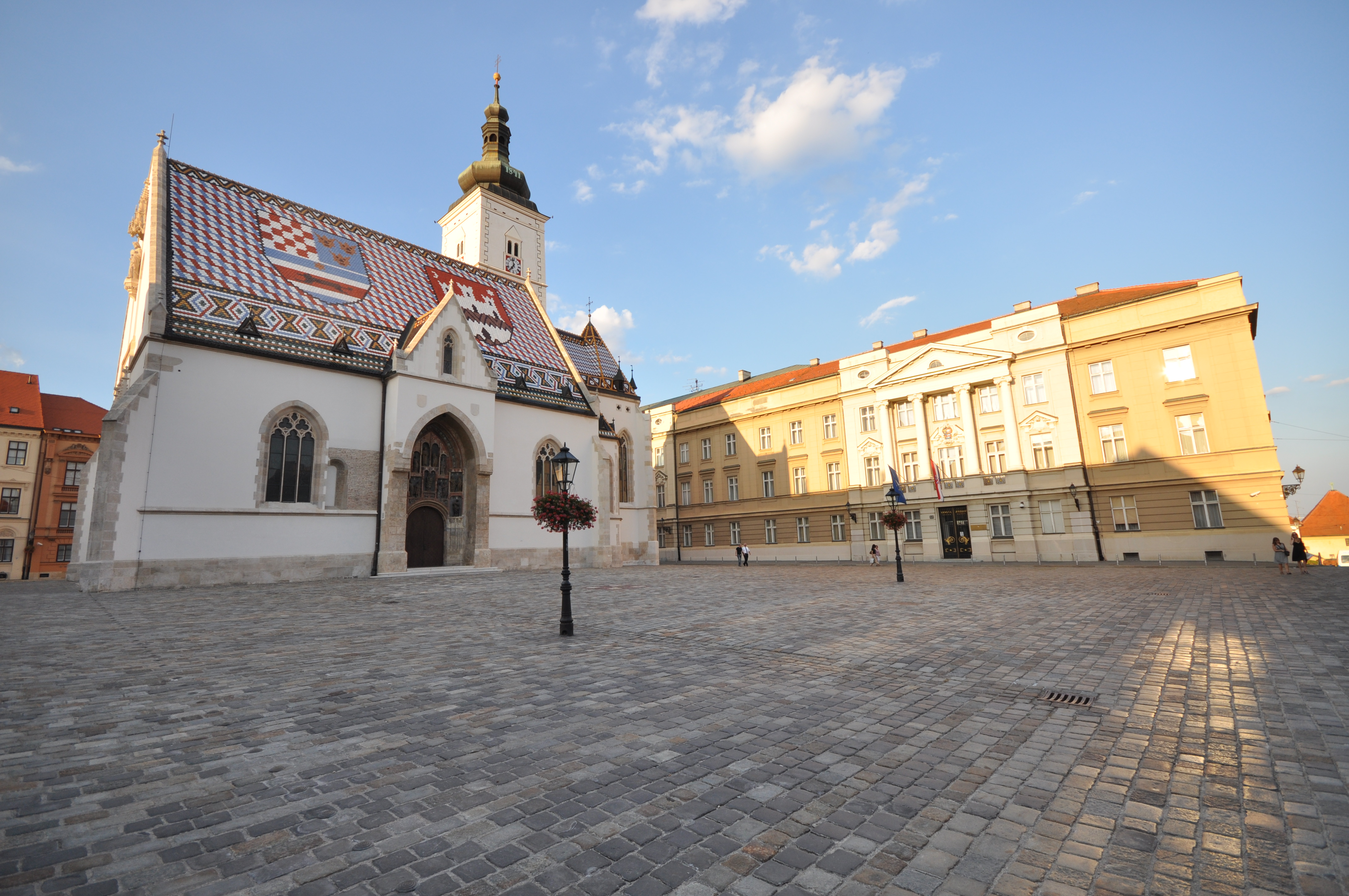 St. Mark's Square (Croatian: Trg svetog Marka) is a square located in the old part of Zagreb, Croatia. In the center of square is located St. Mark's Church. The square also sports important governmental buildings: Banski dvori (the seat of the Government of Croatia), Croatian Parliament (Croatian: Hrvatski sabor) and Constitutional Court of Croatia. On the corner of St. Mark's Square and the Street of Ćiril and Metod is the Old City Hall, where the Zagreb City Council held its sessions. In 2006 the square has undergone through renovation project. Since August 2005, the Government forbid any form of protests on St. Mark's square which caused many controversies in Croatian's "civil society". This ban was partially lifted in 2012. The square is also the site of the inaugurations of Croatia's presidents. Franjo Tuđman took his oath as President of the Republic in 1992 and 1997, Stjepan Mesić in 2000 and 2005 and Ivo Josipović in 2010